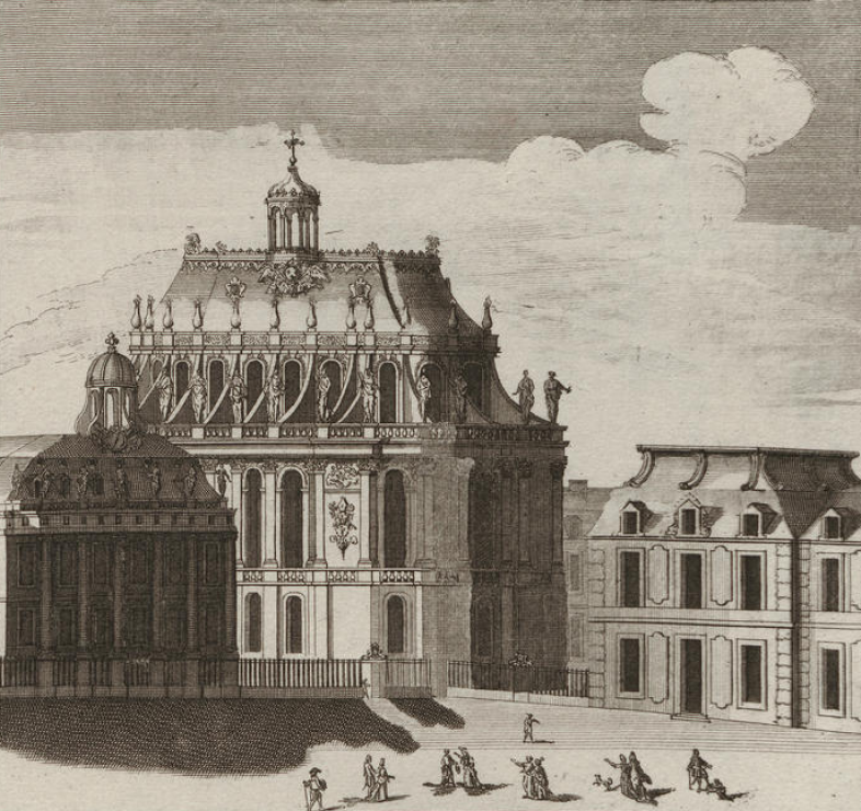 Detail from the title plate showing a view from the southeast of the Royal Chapel of Versailles